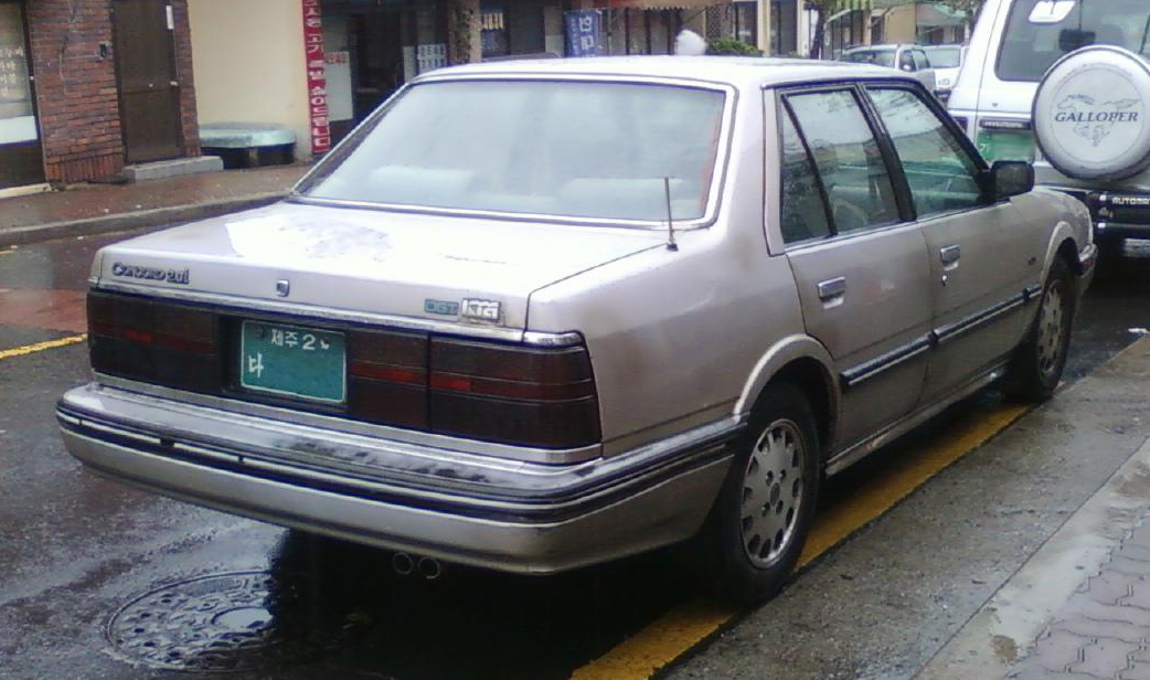 Kia Motors Concord 1989